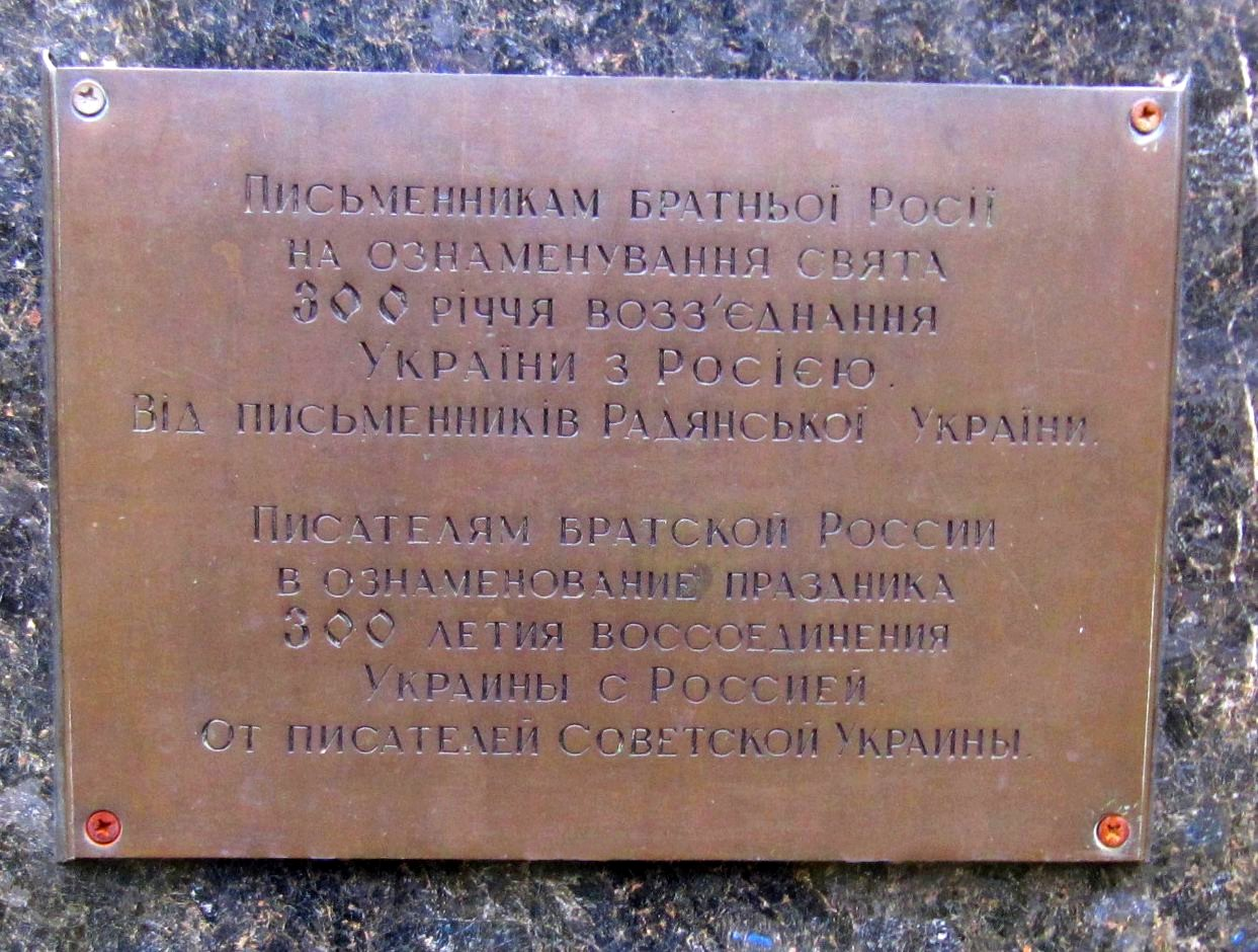 A memorial sign on the monument to Leo Tolstoy made by sculptor Galina Novokreshchenova in 1958. Writers from Ukraine to the Russian writers to celebrate the 300 th anniversary of the unification of the two countries.